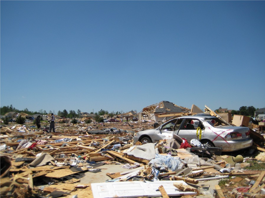 Neighborhood in Toney, Alabama destroyed by the 2011 Hackleburg-Phil Campbell, Alabama tornado.